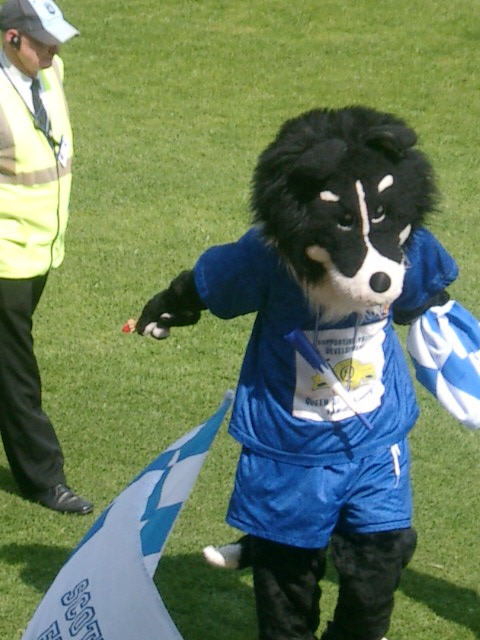 QoS mascot Doogie the Donhamer